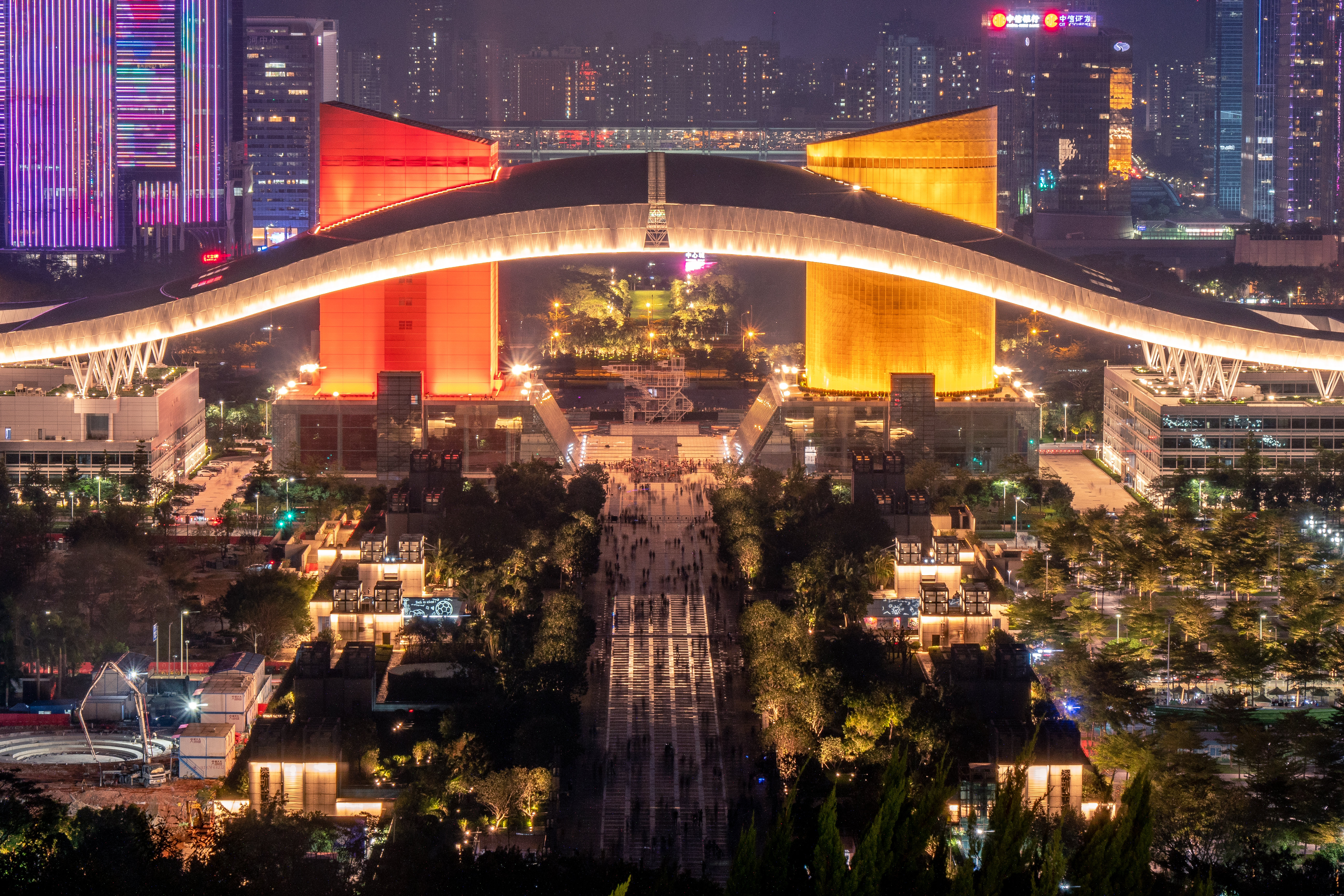 Night of Civic Center Shenzhen from Lianhua Mountain